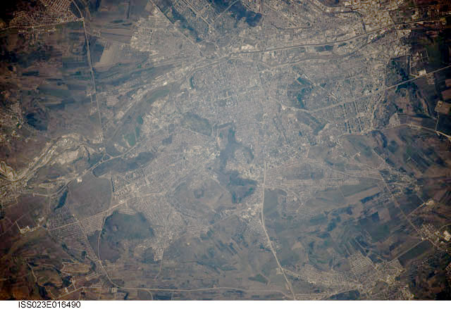 Astronaut Photo of Chisinau, Moldova taken from the International Space Station (ISS) during Expedition 23 on March 30, 2010.